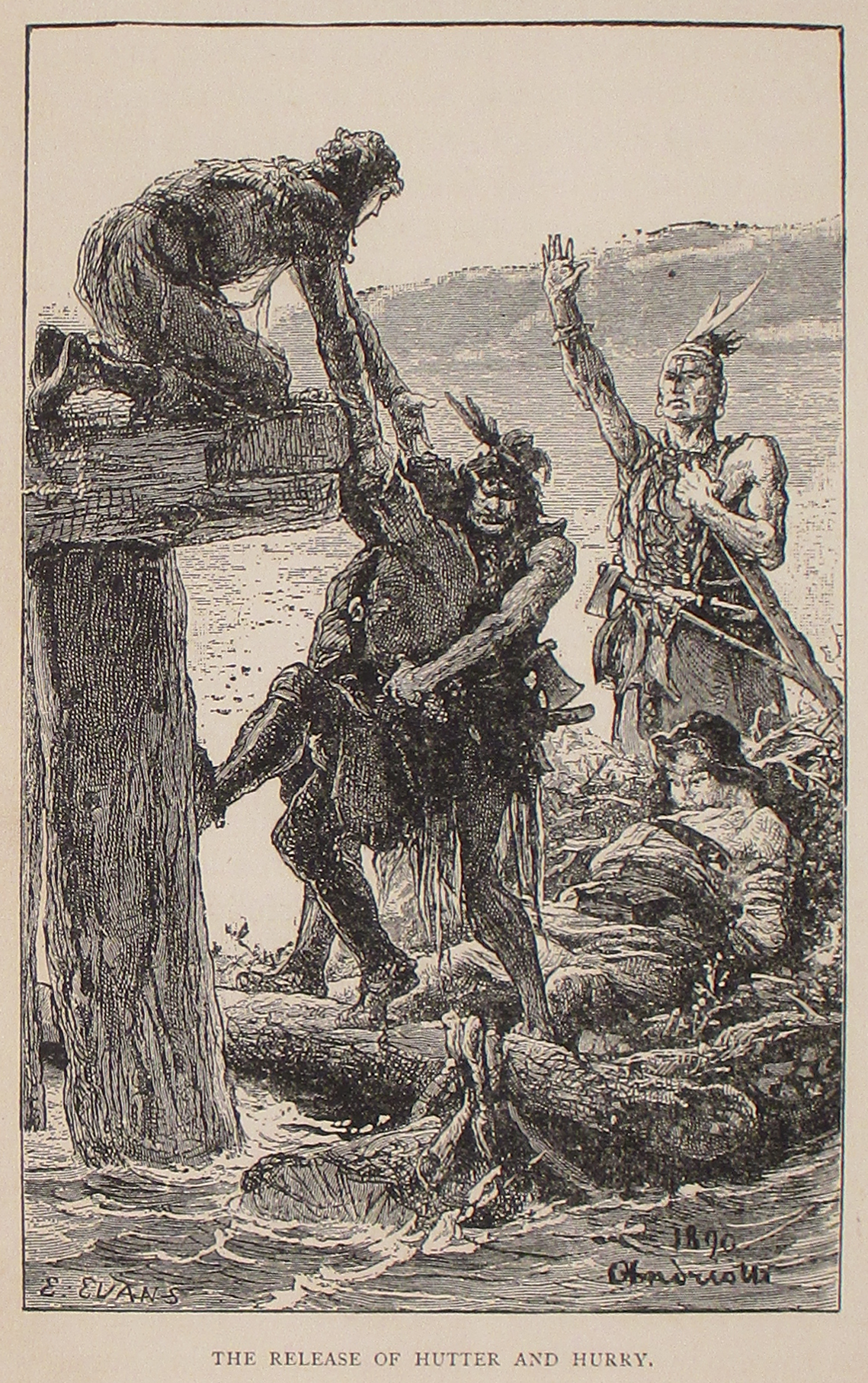 Engraving captioned "The release of Hutter and Hurry"